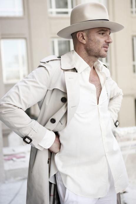 Photograph of Alan Faena